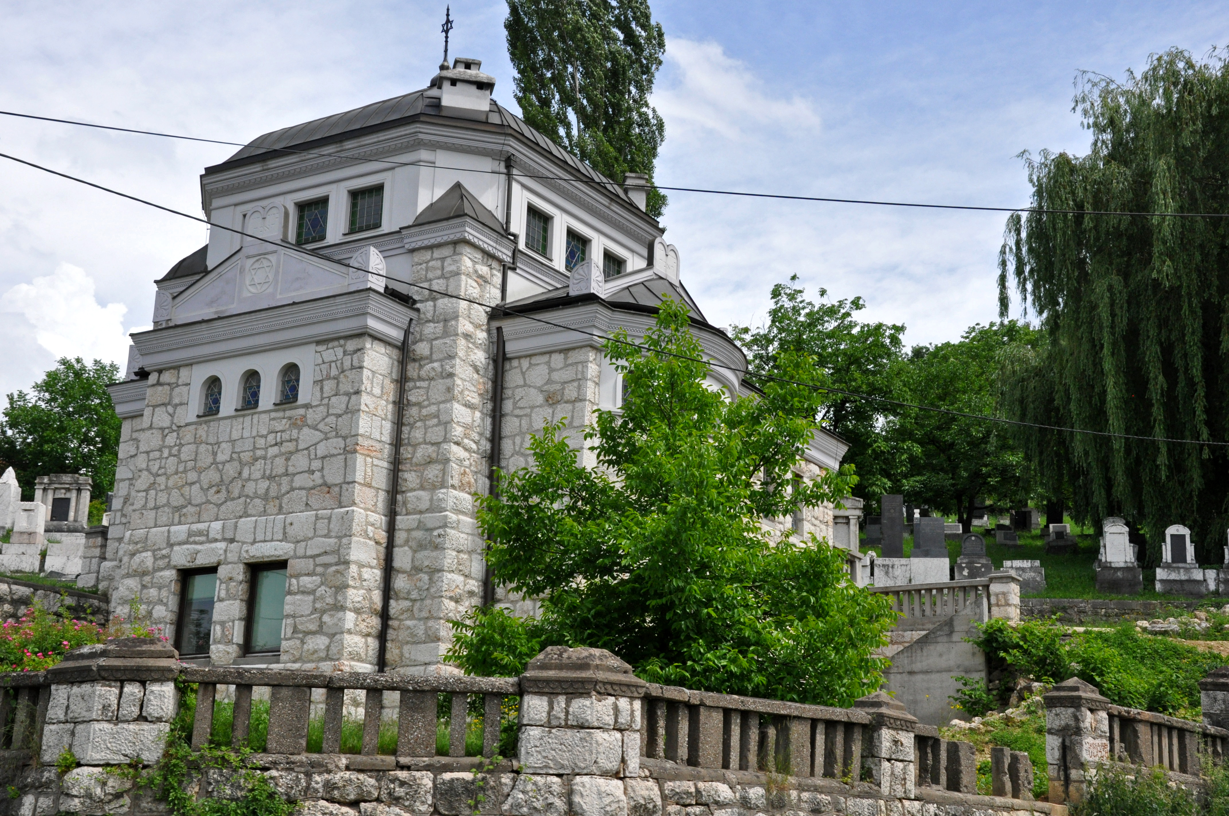 I swear my guide said that this is the 2nd biggest synagogue in Europe, but my research is telling me otherwise.